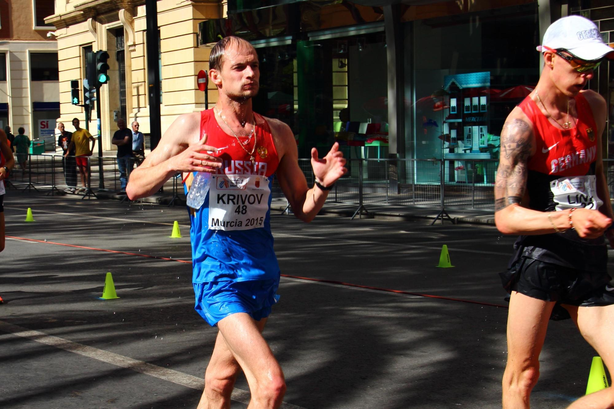 48-Andrey Krivov (RUS) in the 11th European Cup Race Walking Murcia ESP 17 May 2015